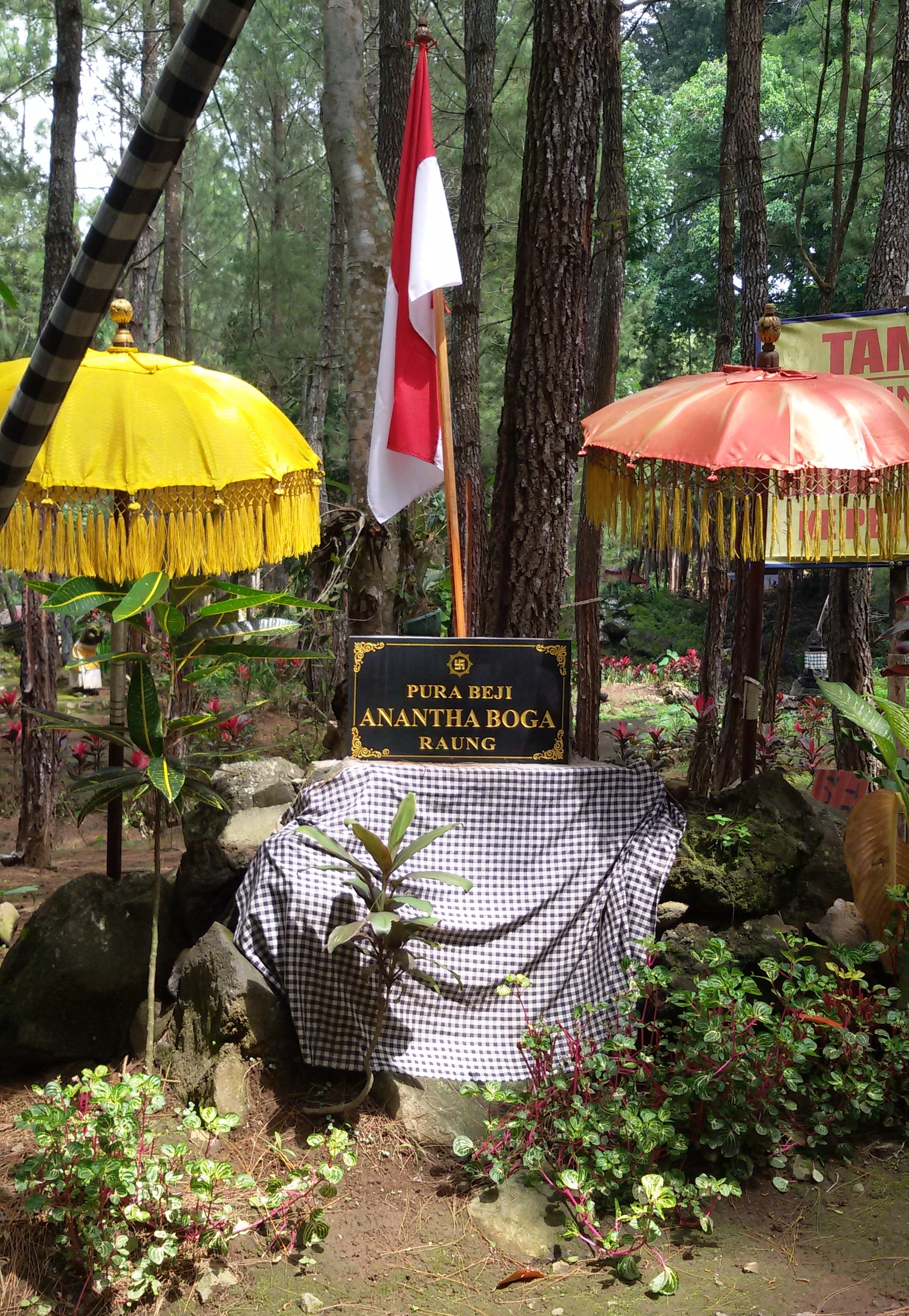 Pura Beji Anantaboga